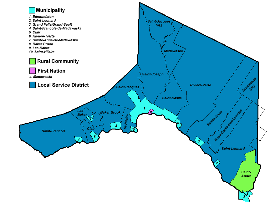 Municipal government units of Madawaska County, New Brunswick. After files from Service New Brunswick